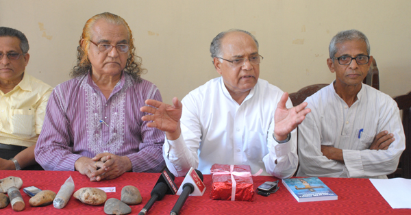 Justice M. F. Saldanha (centre), head of his namesake Saldanha Commission which investigated the attacks on Christians in southern Karnataka on September 2008.